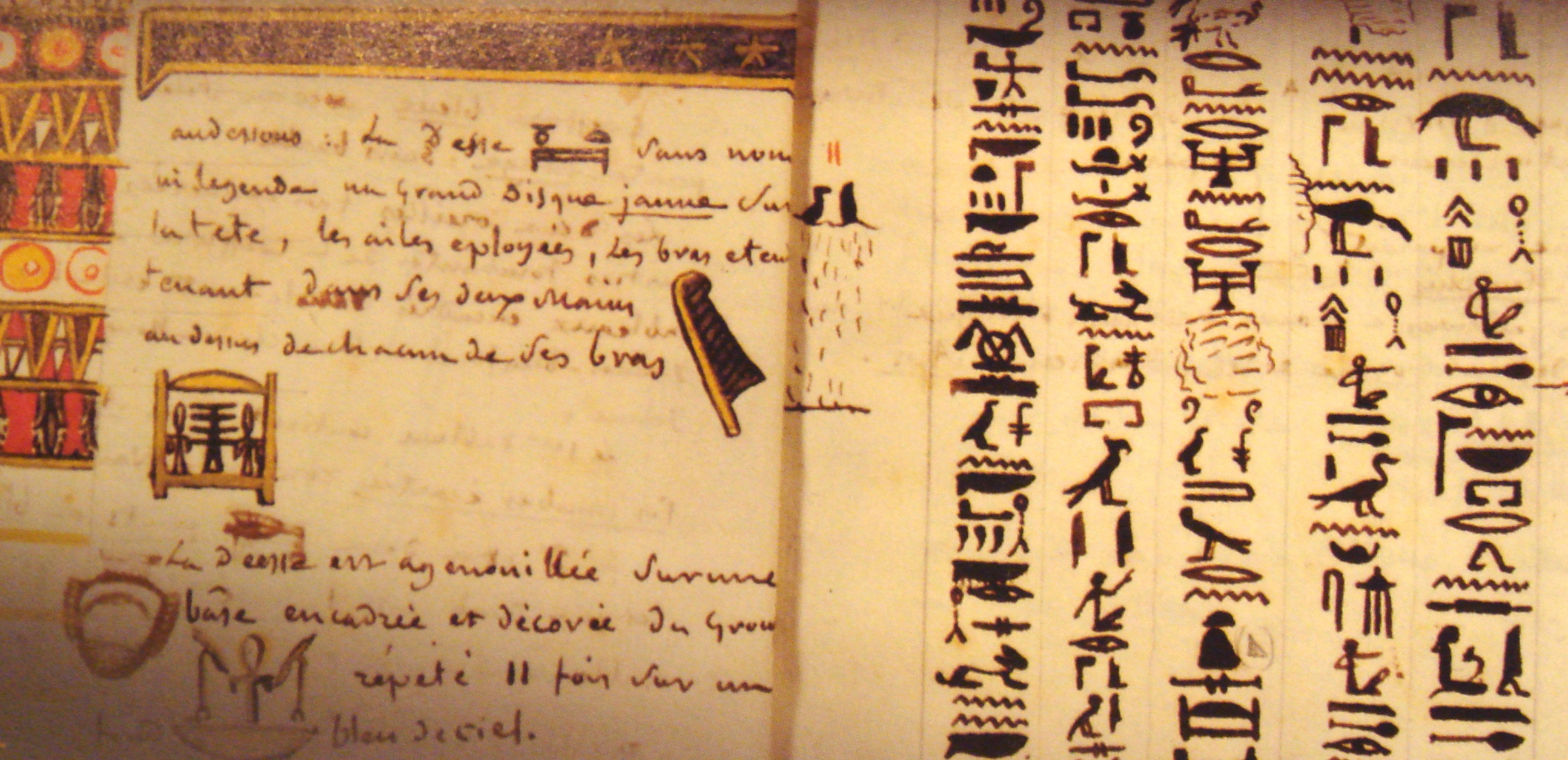 A page of a notebook written by Champollion